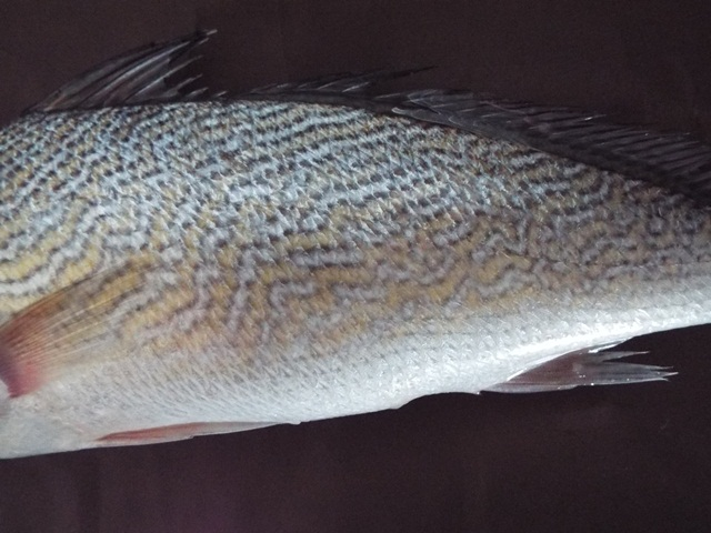 Umbrina cirrosa collected in north Tyrrhenian sea, Tuscany, Italy